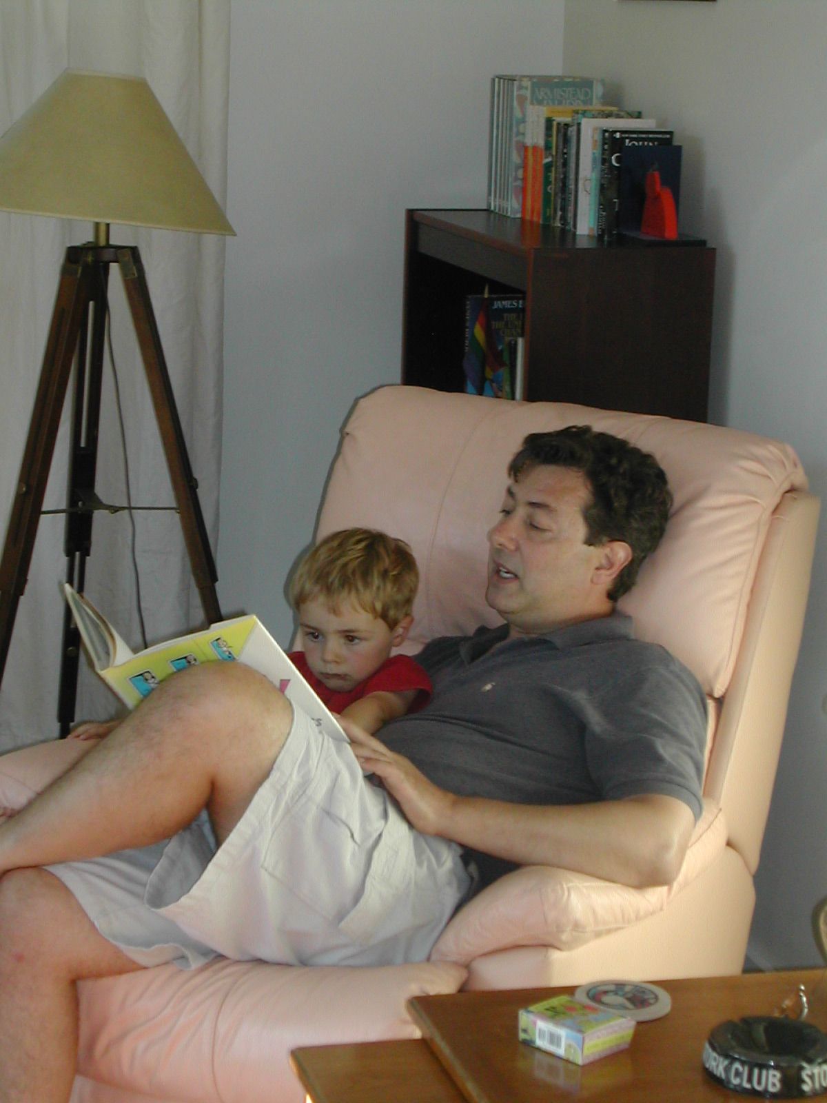 Reading, 2005